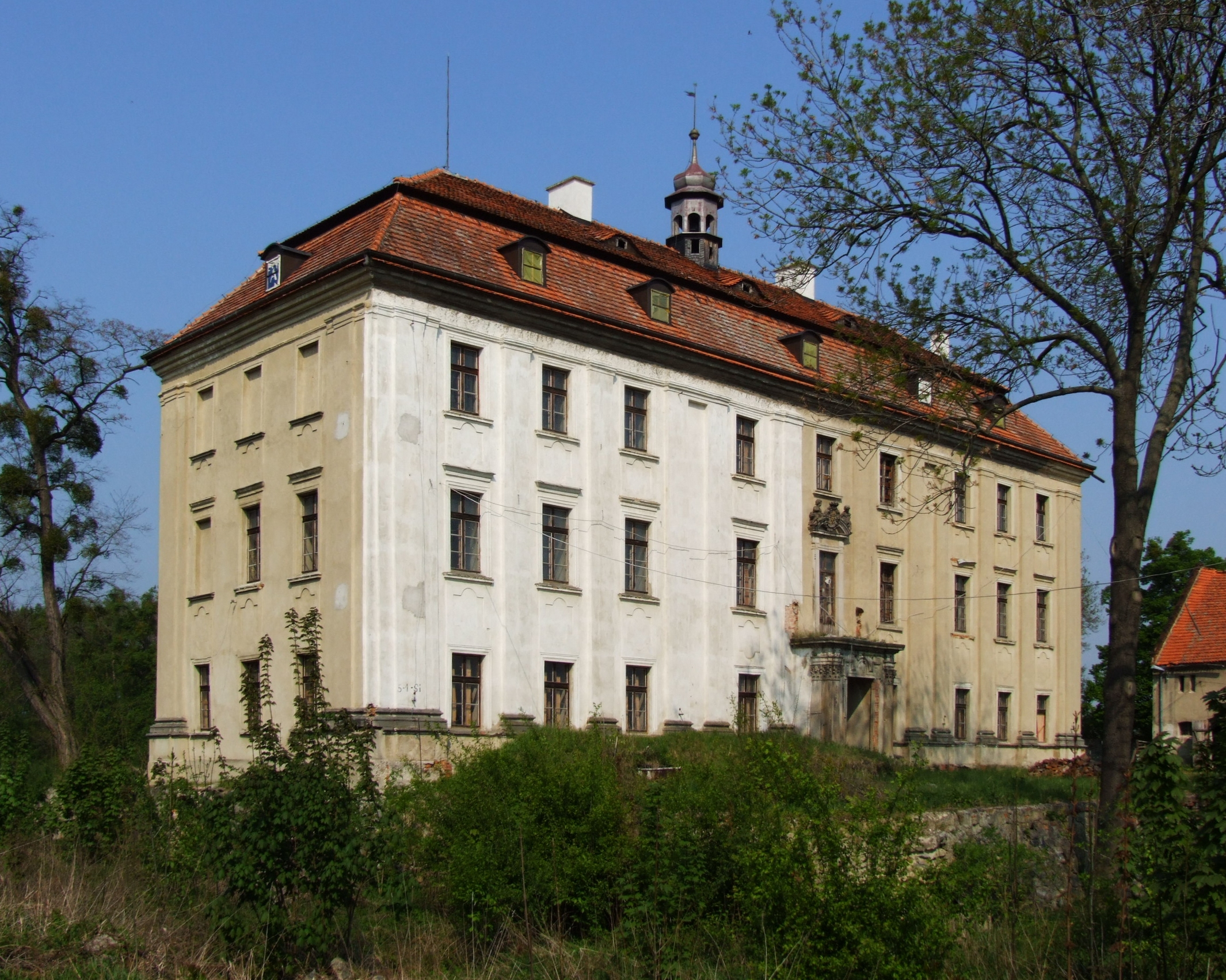 Castle in Sokolniki (Wättrisch), Lower Silesian Voivodeship, Poland